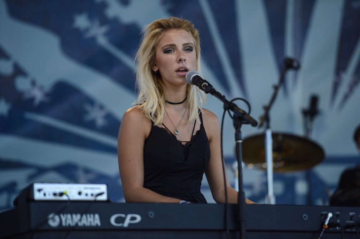 Anna Graceman playing keys at the Pilgrimage Festival. Franklin TN